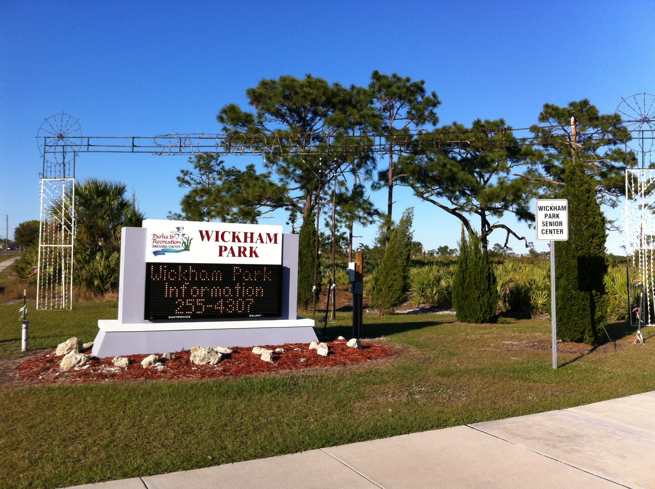 Sign at Wickham Park at the corner of Wickham Road and Leisure Way, Melbourne, Florida.